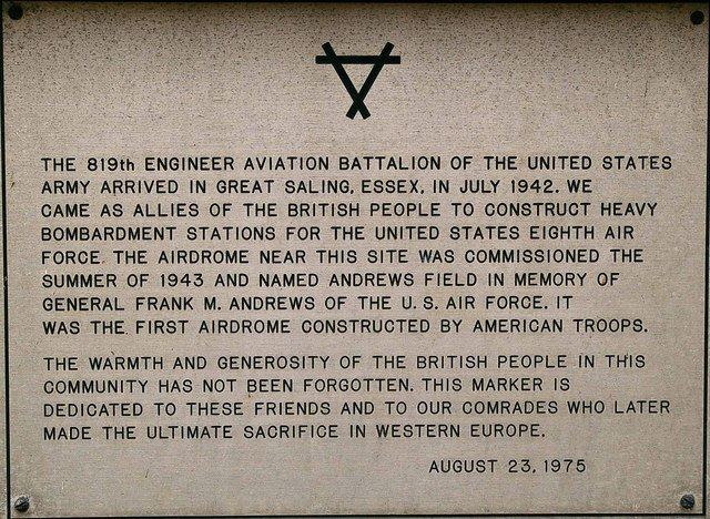 US Andrews Field World War II memorial plaque of August 23 1975, in Great Saling, Essex, UK. See also File:US Andrews Field memorial .uk 577242 713a9915-by-Glyn-Baker.jpg